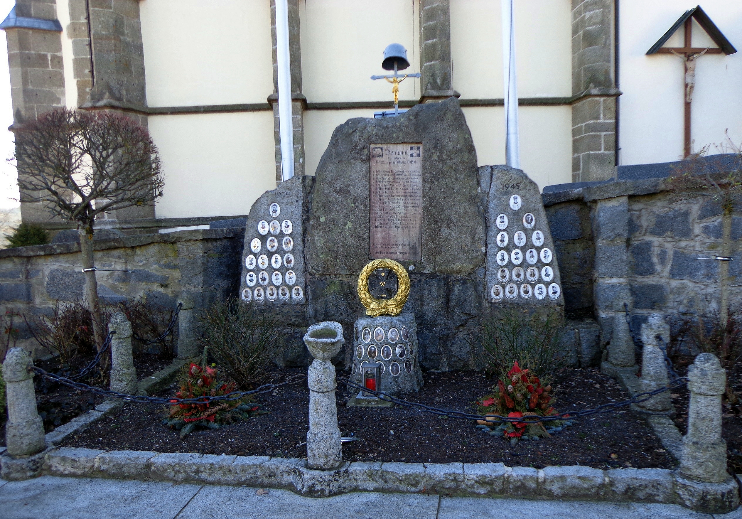 War memorial in Preying (municipality of Saldenburg, district of Freyung-Grafenau in Bavaria, Germany), commemorating the dead of World War I and World War II from the village